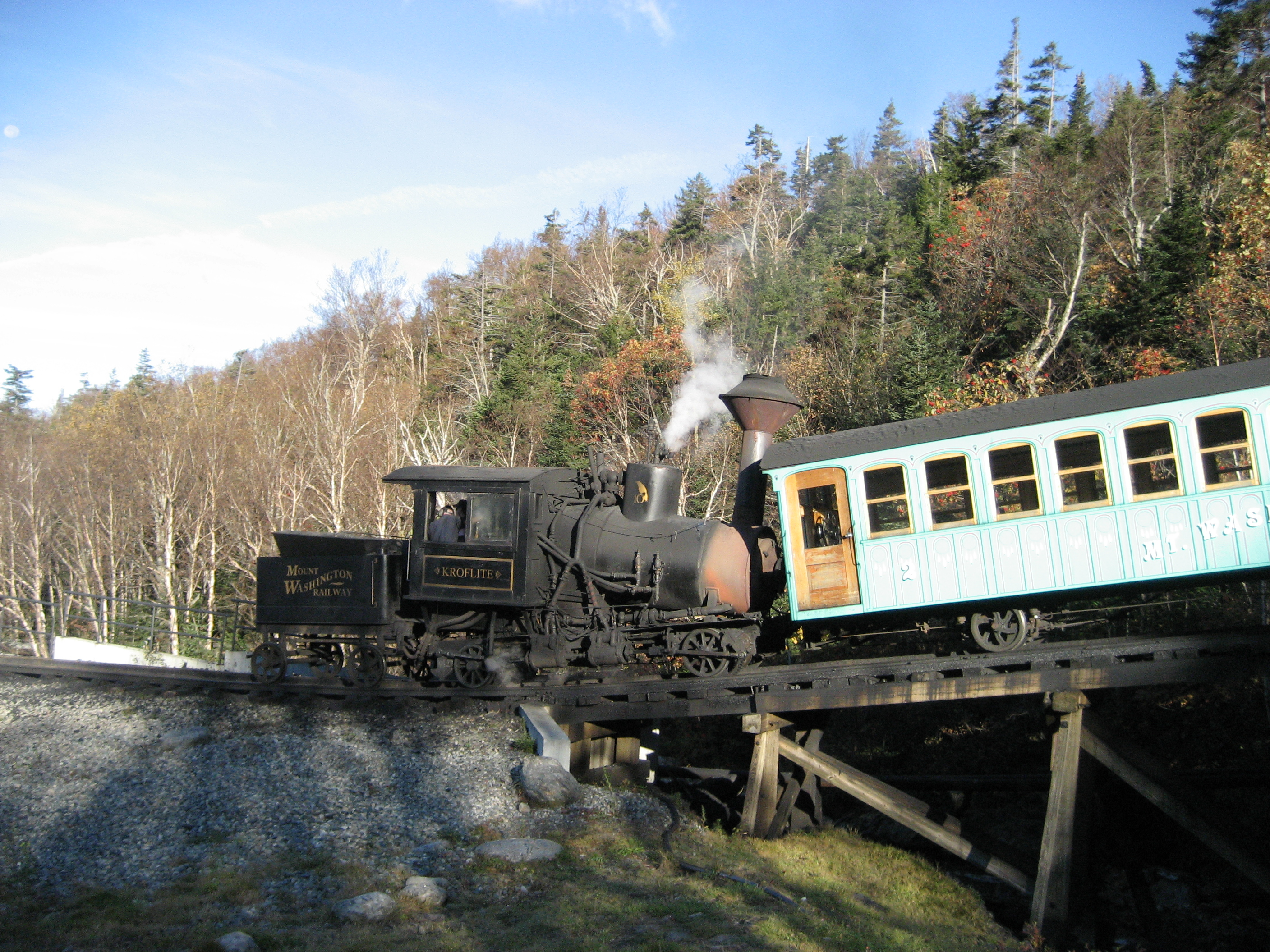 Locomotive Kroflite and train at the Base Station of the Mount Washington Cog Railway